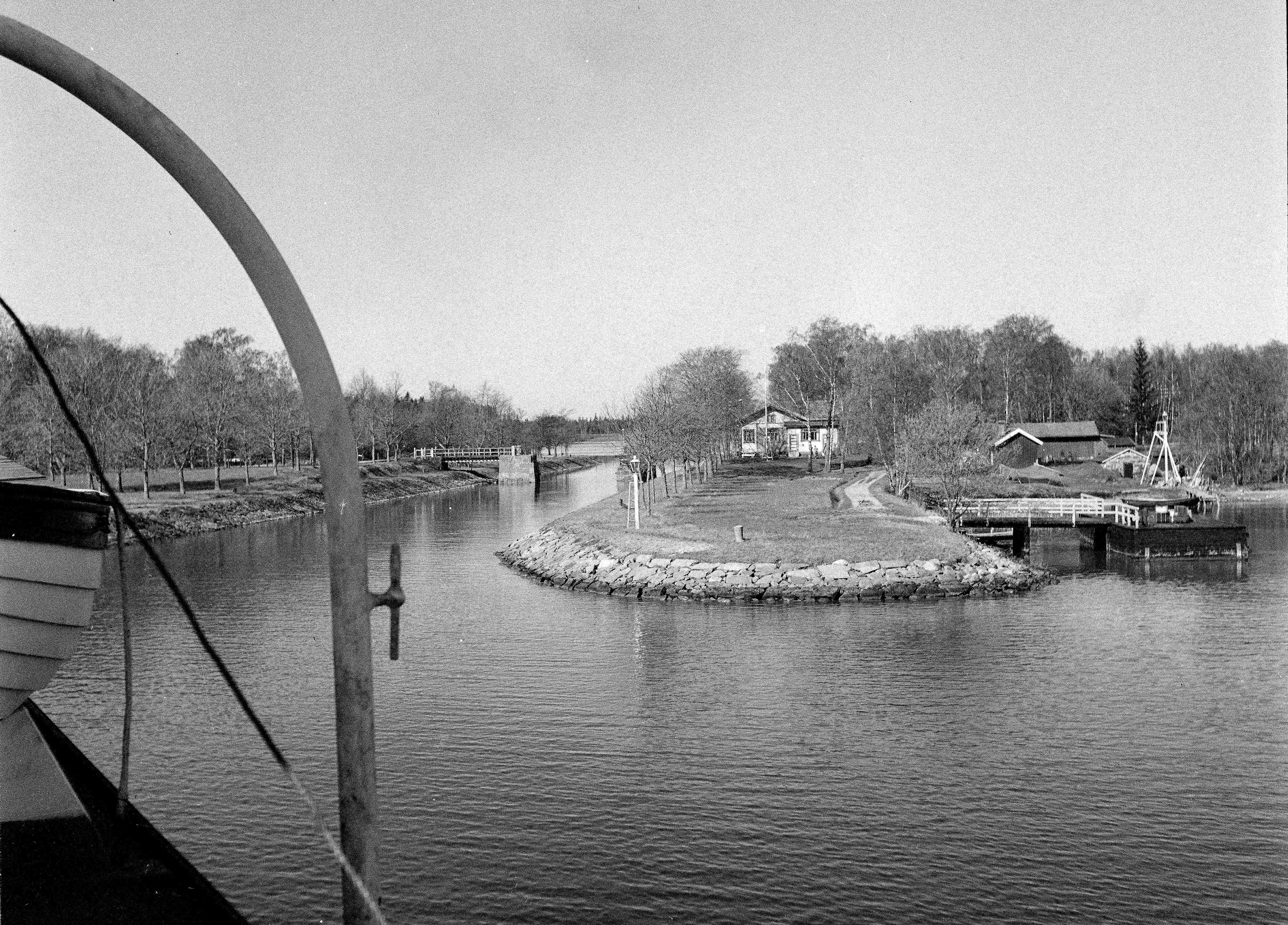 "The boat trip Turku-Mariehamn is beautiful, especially entry to the Lemström Channel, located not far from Mariehamn" Picture by Military Official (fi: "sot. virk.") Eino Nurmi.